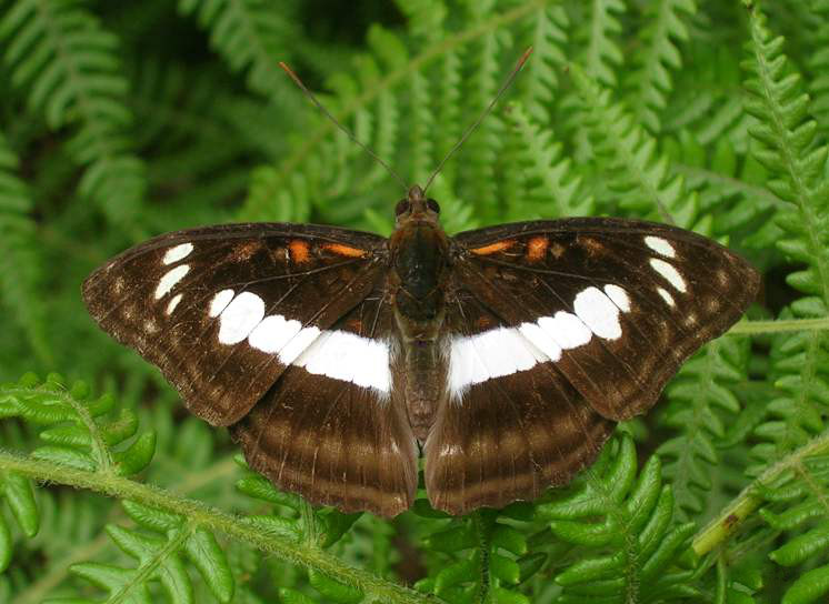 Staff Sergeant butterfly. Athyma selenophora, Nymphalidae Photograph by L. Shyamal, Tadiandamol, Coorg